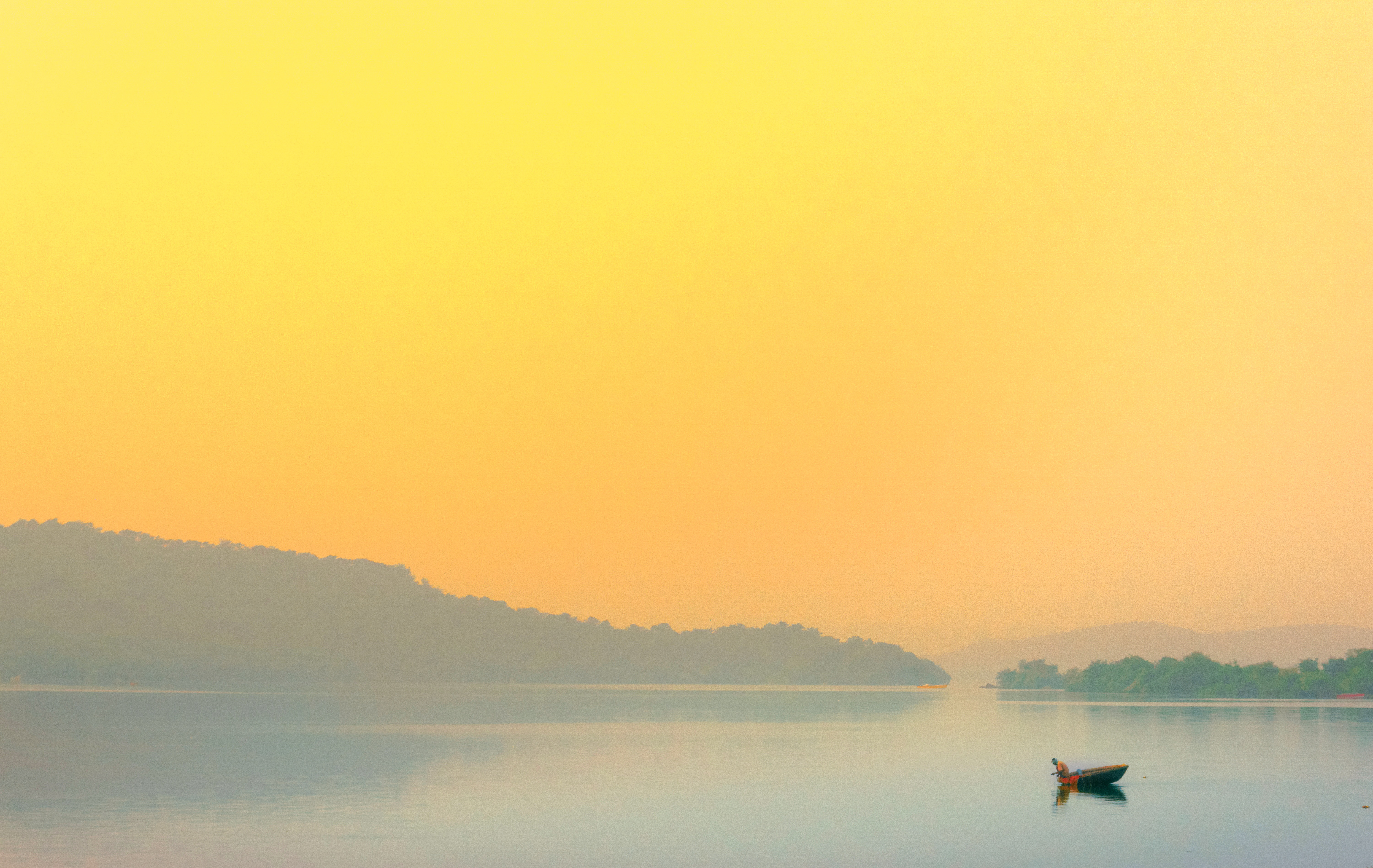 The early winter morning i.e even before sunrise a fisherman along with his boat and all his fishing equipment went into the backwaters of Nagarjuna Sagar dam, which is located in Telangana, India.